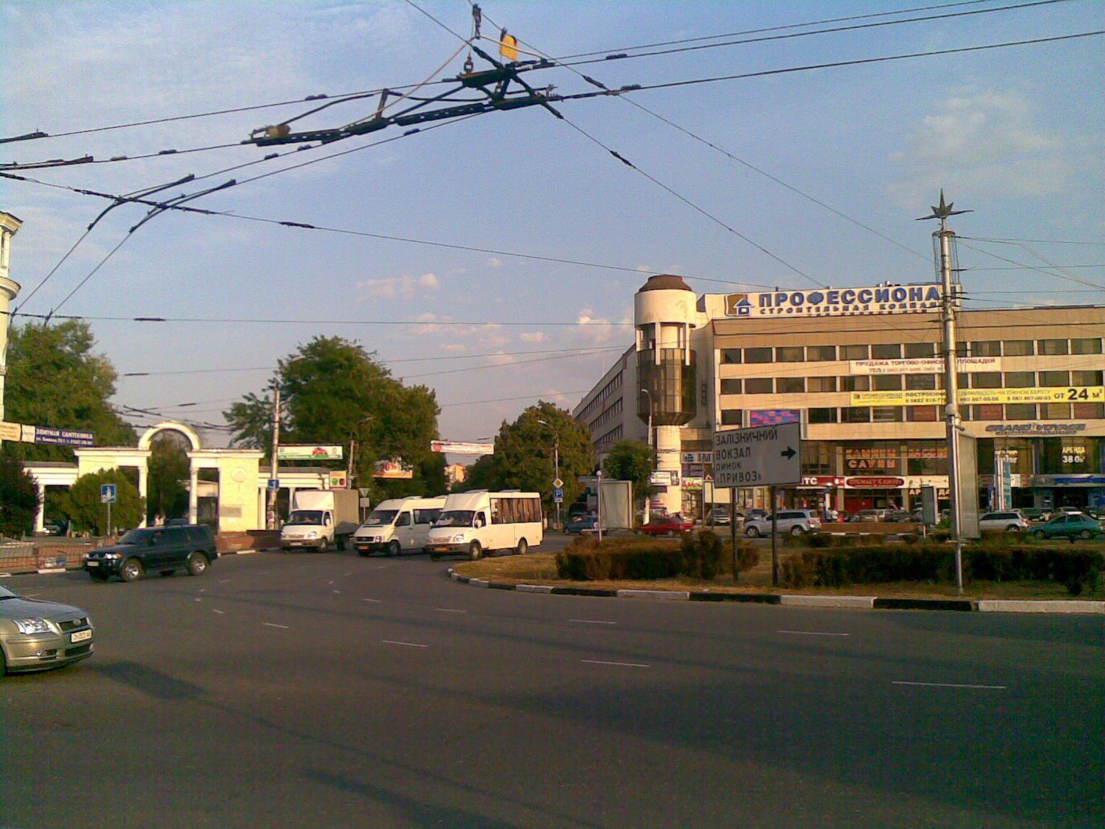 Simferopol_center_02